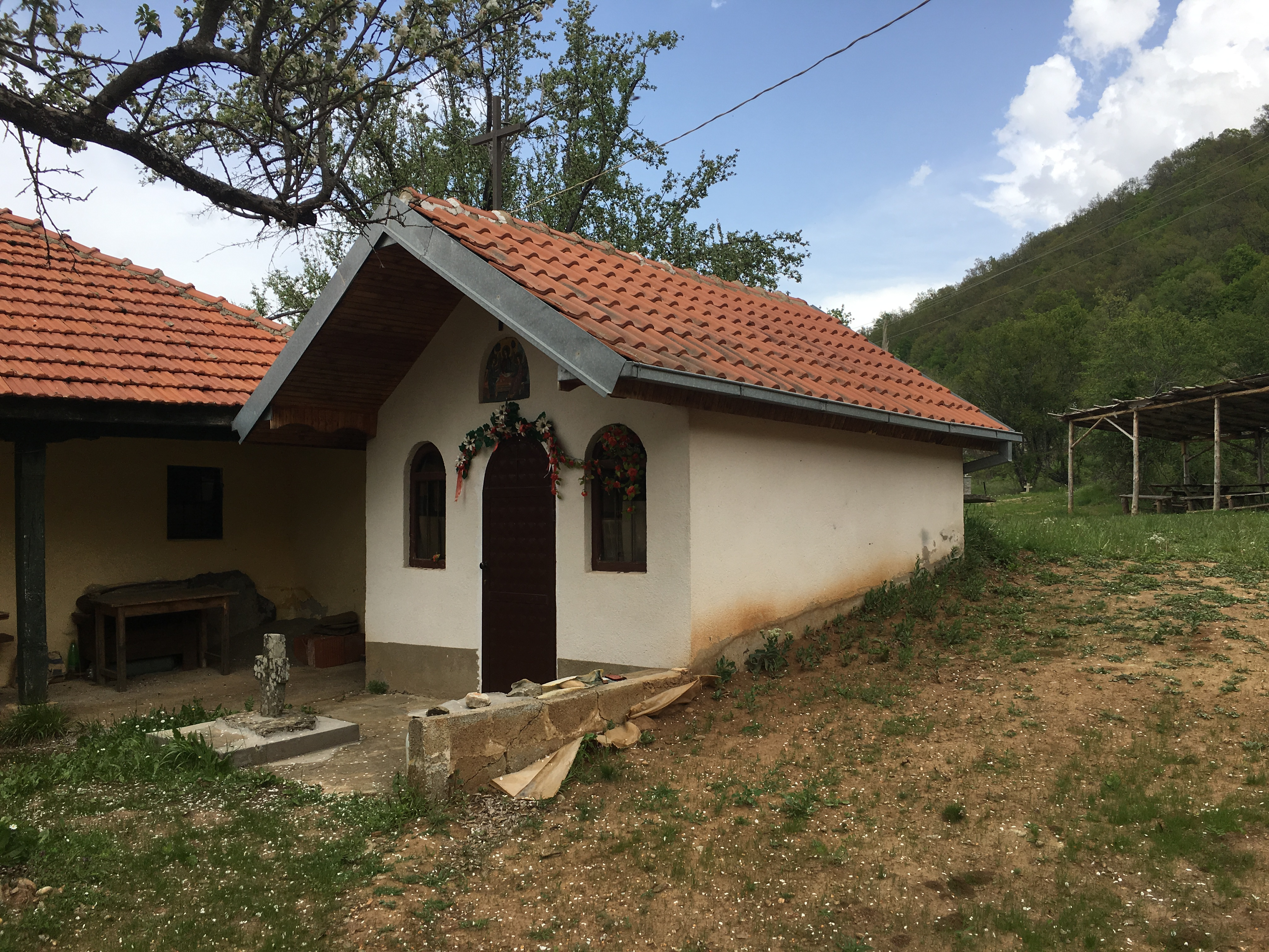 A chapel in Holy Trinity Church's yard in the village of Moždivnjak